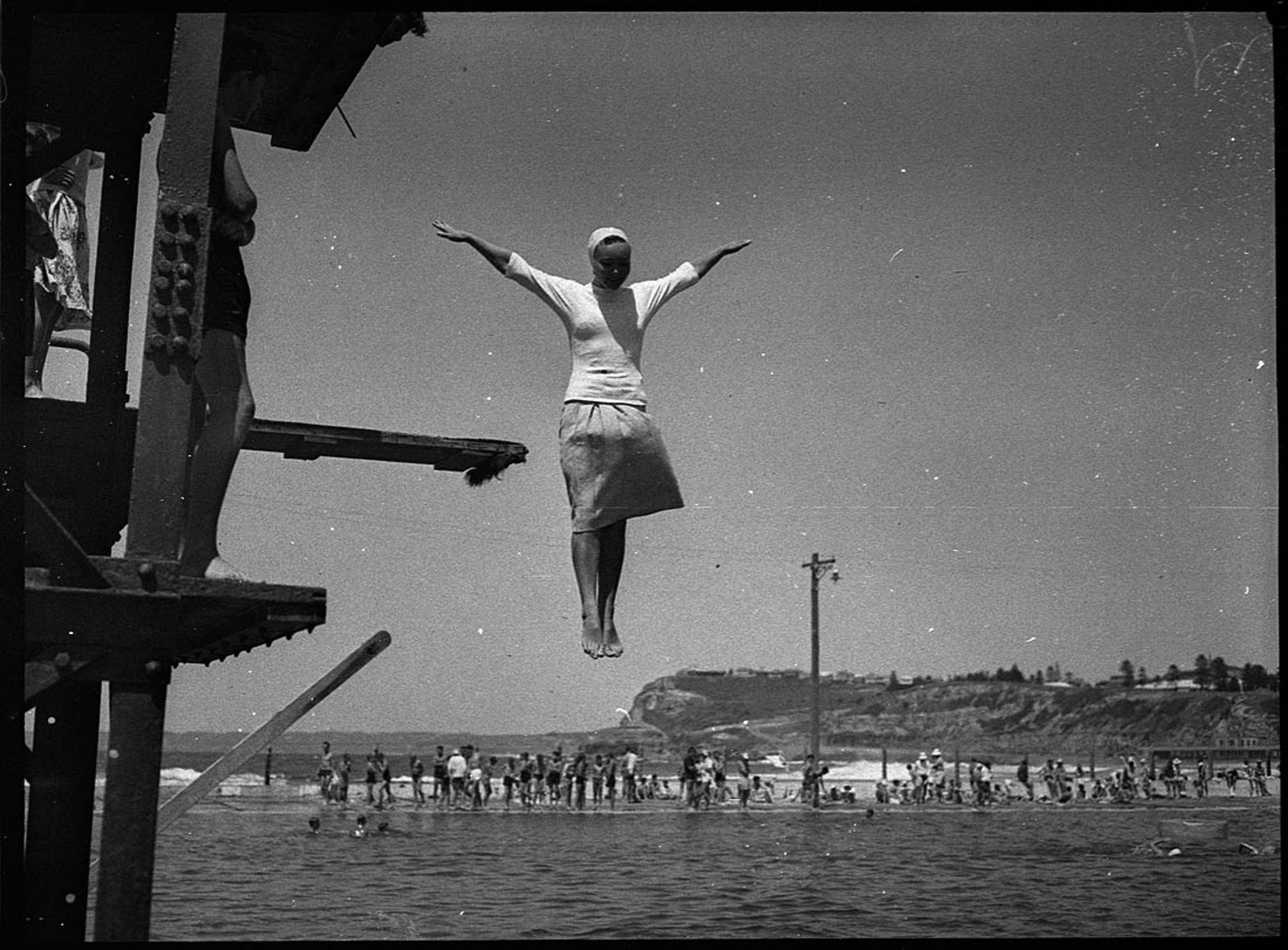 Note: This is probably part of a water safety or life-saving test. She isn't going to swim lengths in her clothes Format: Photograph Notes: Find more detailed information about this photograph: .au/item/itemDetailPaged.aspx?itemID=32545 Search for more great images in the State Library's collections: .au/search/SimpleSearch.aspx From the collection of the State Library of New South Wales